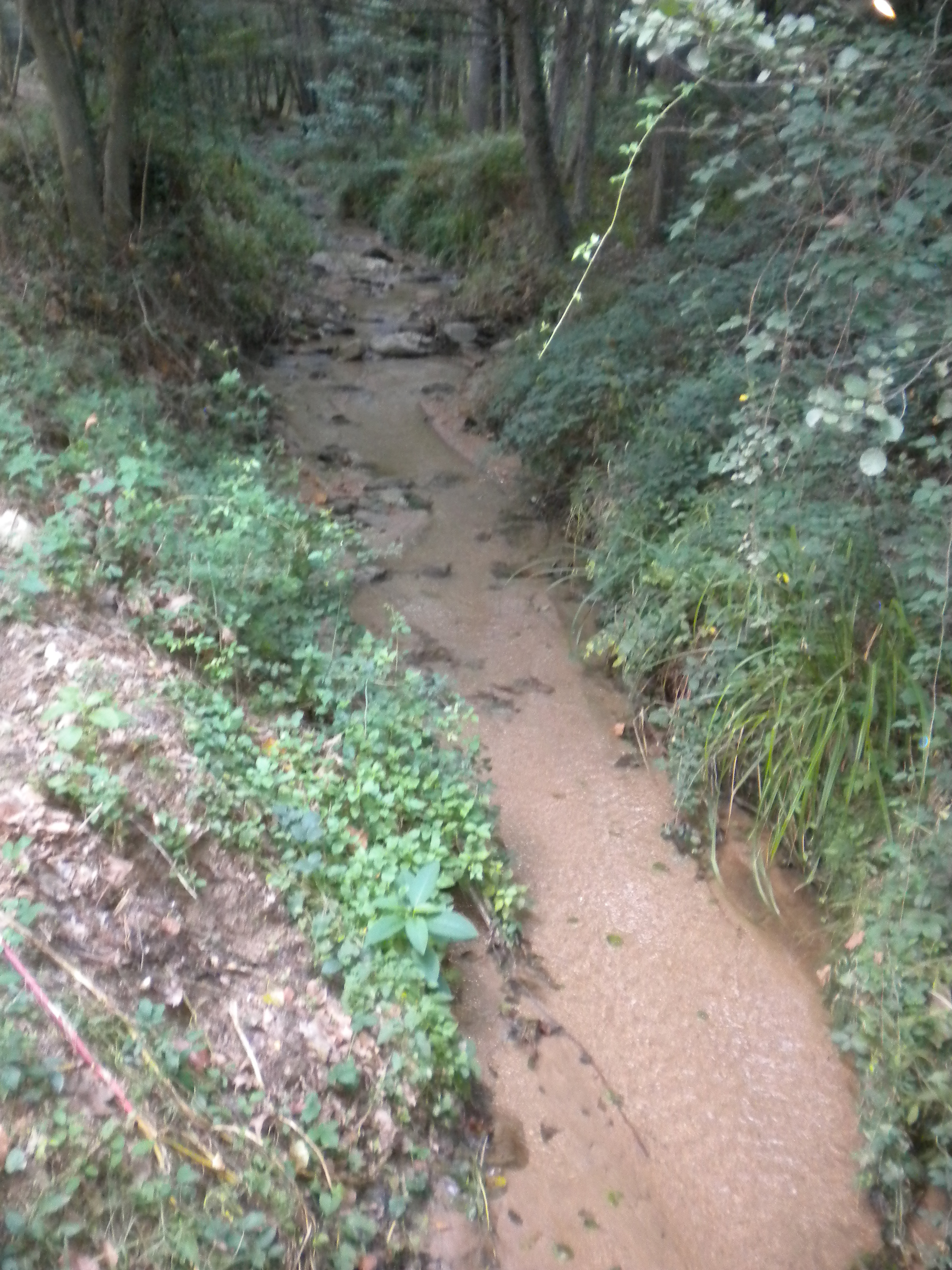 Riera de Riudecòs, in Malhivern Range. Village of Arbúcies, Catalonia.